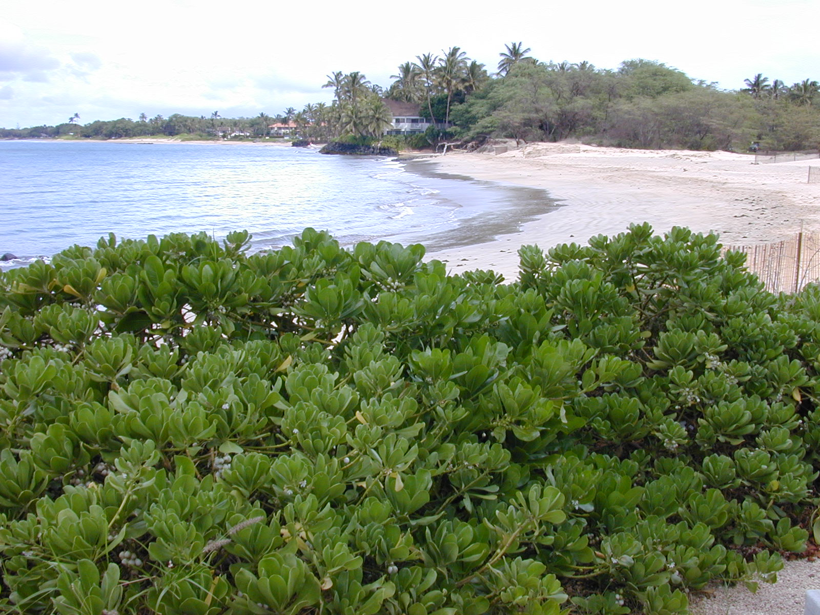 Scaevola taccada (habit view). Location: Maui, Kalepolepo